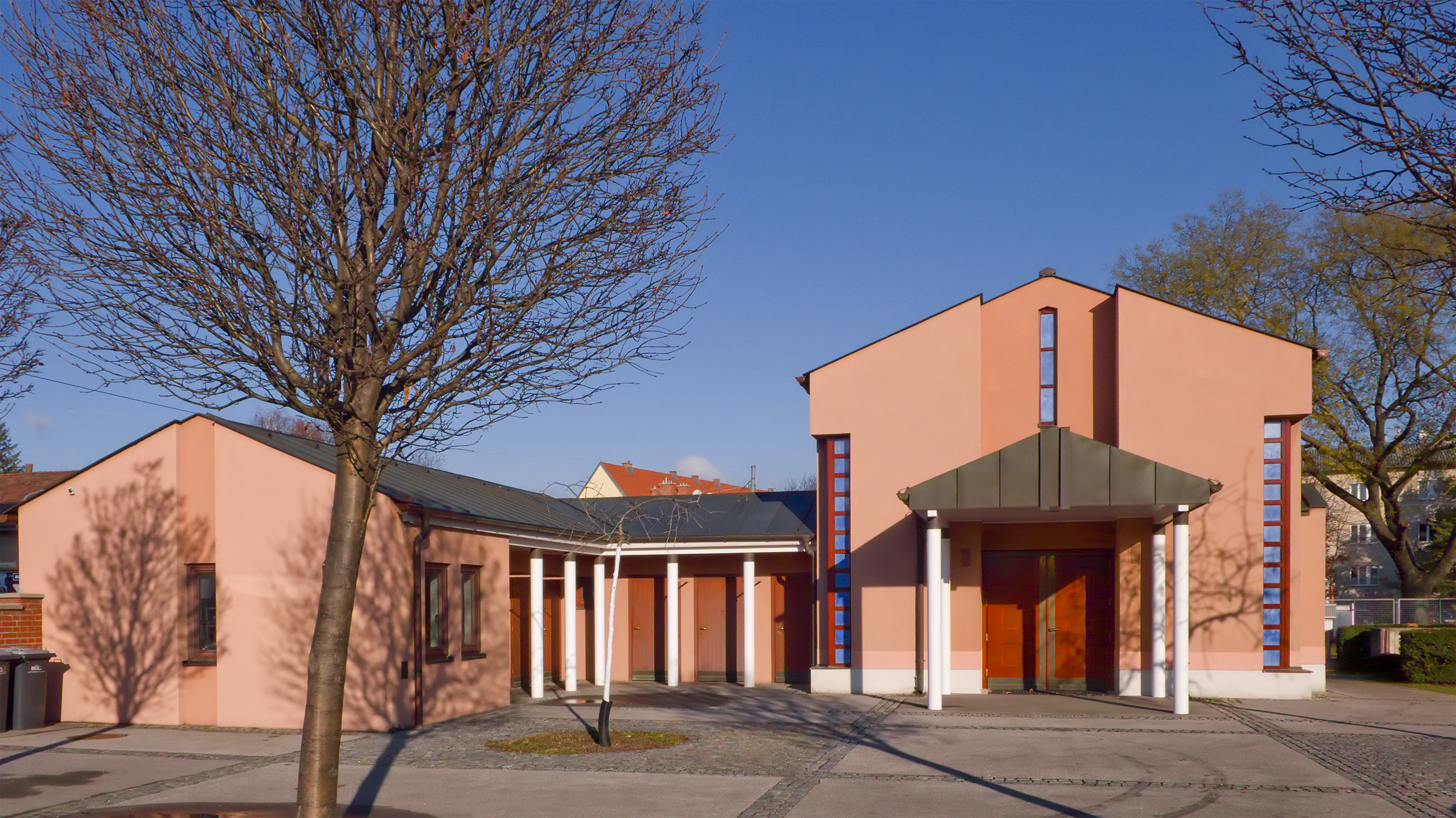 Vienna Liesing: Friedhof Erlaa